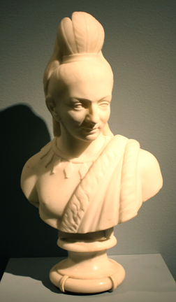 Work based on the Henry Wadsworth Longfellow poem